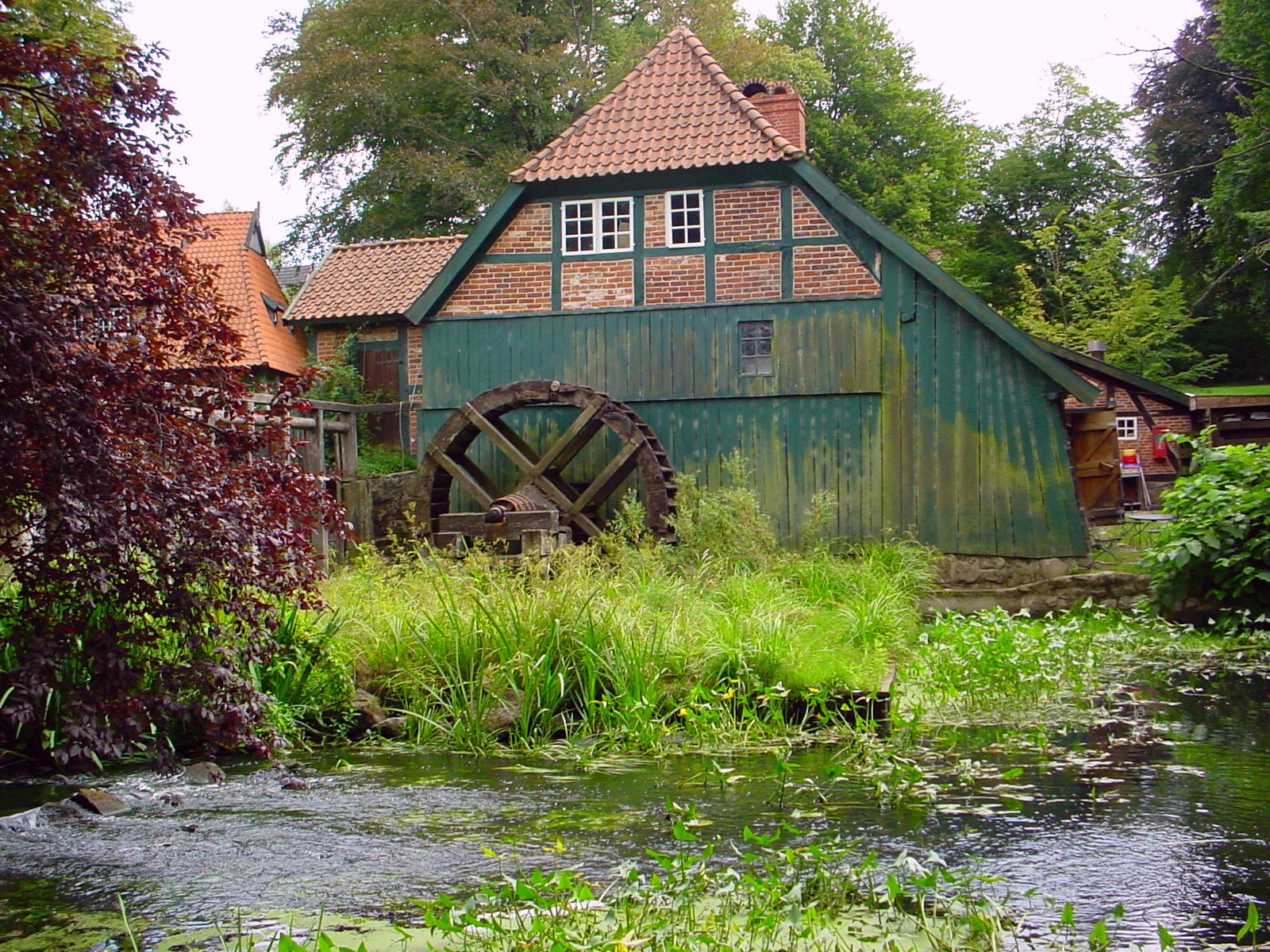 Grande mill in Kuddewörde